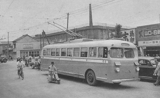 TMBT Trolley bus